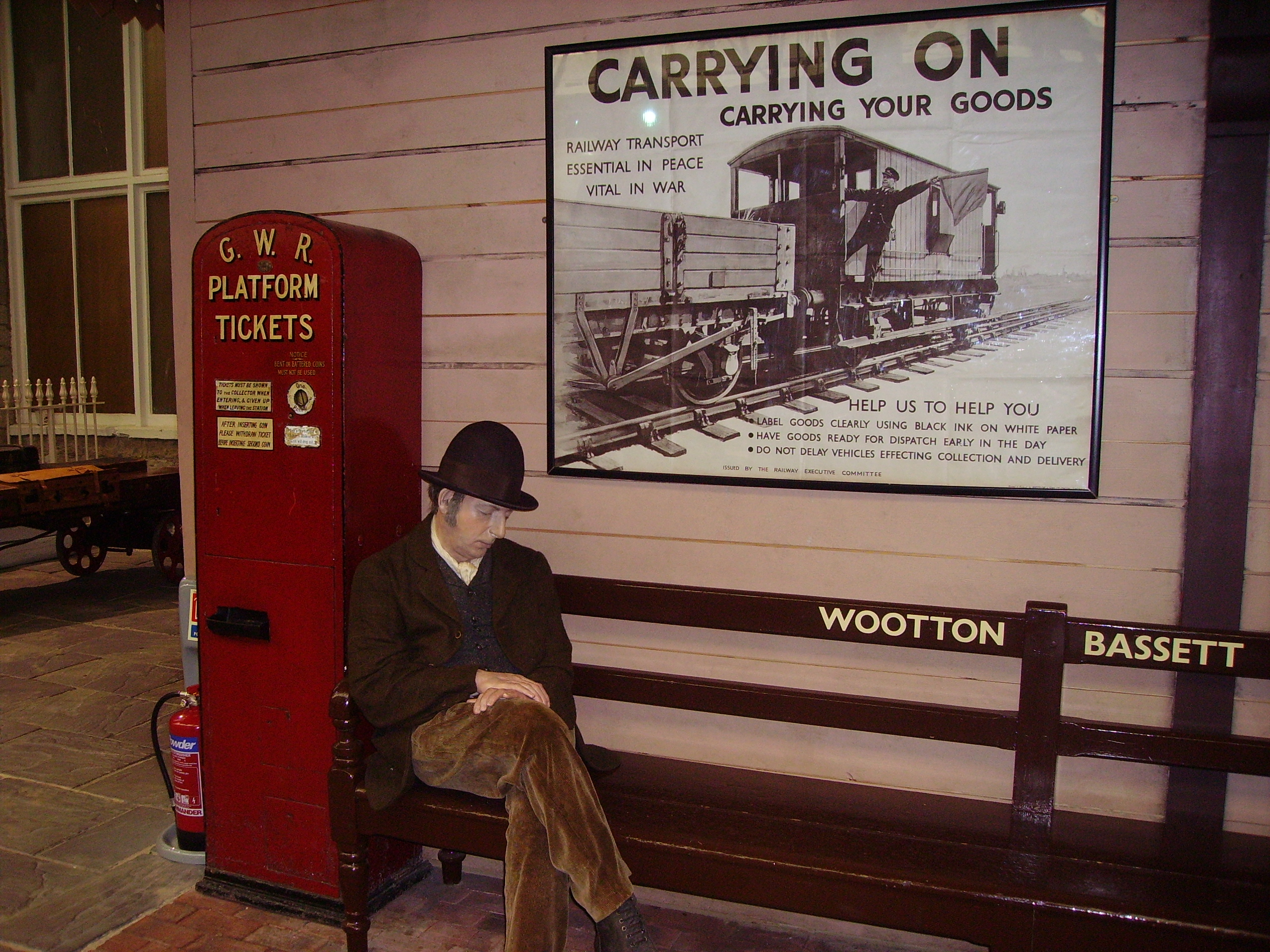 Photographer: User:Ballista Taken in the Steam Museum, Swindon